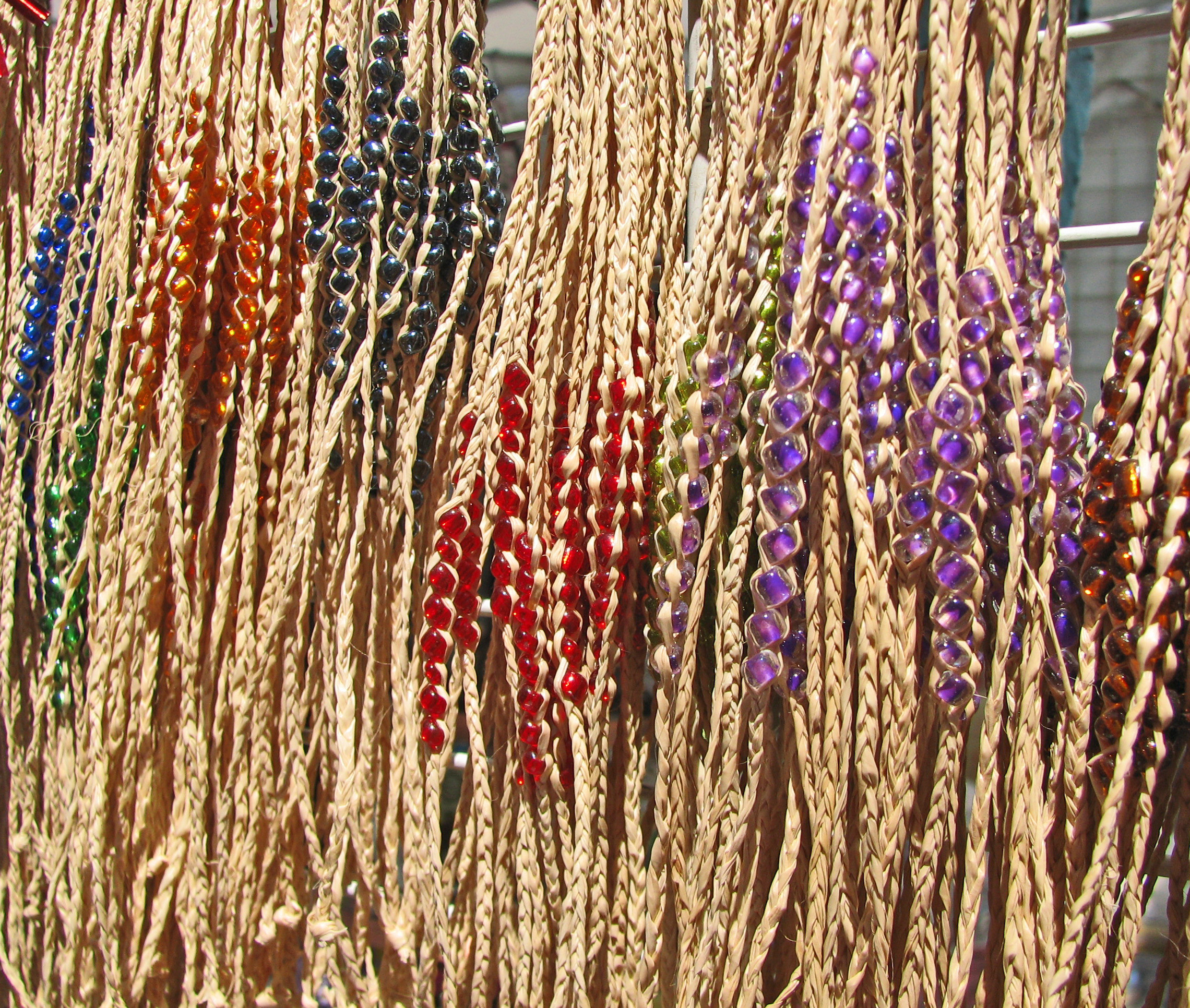 A number of hemp and bead bracelets at an Oakland, California, U.S.A. Chinatown street fair